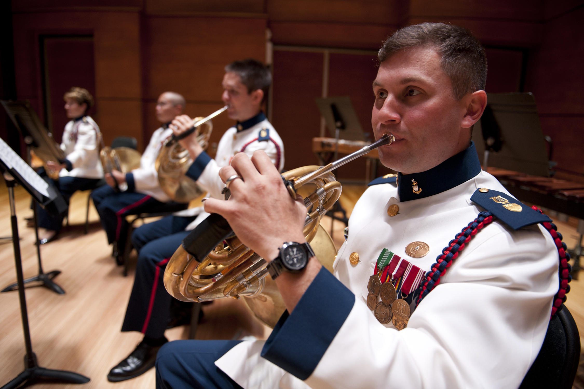 The U.S. Coast Guard Band practices on the stage of Leamy Hall Tuesday, Oct. 25, 2011, at the U.S. Coast Guard Academy in New London, Conn. U.S. Coast Guard photograph by Petty Officer 1st Class NyxoLyno Cangemi